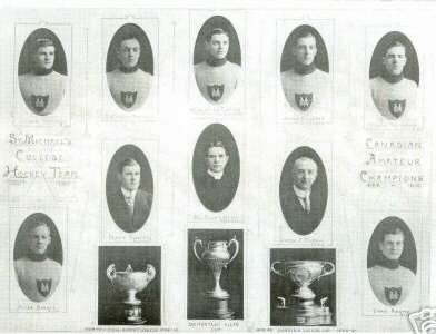 Allan Cup champions poster.